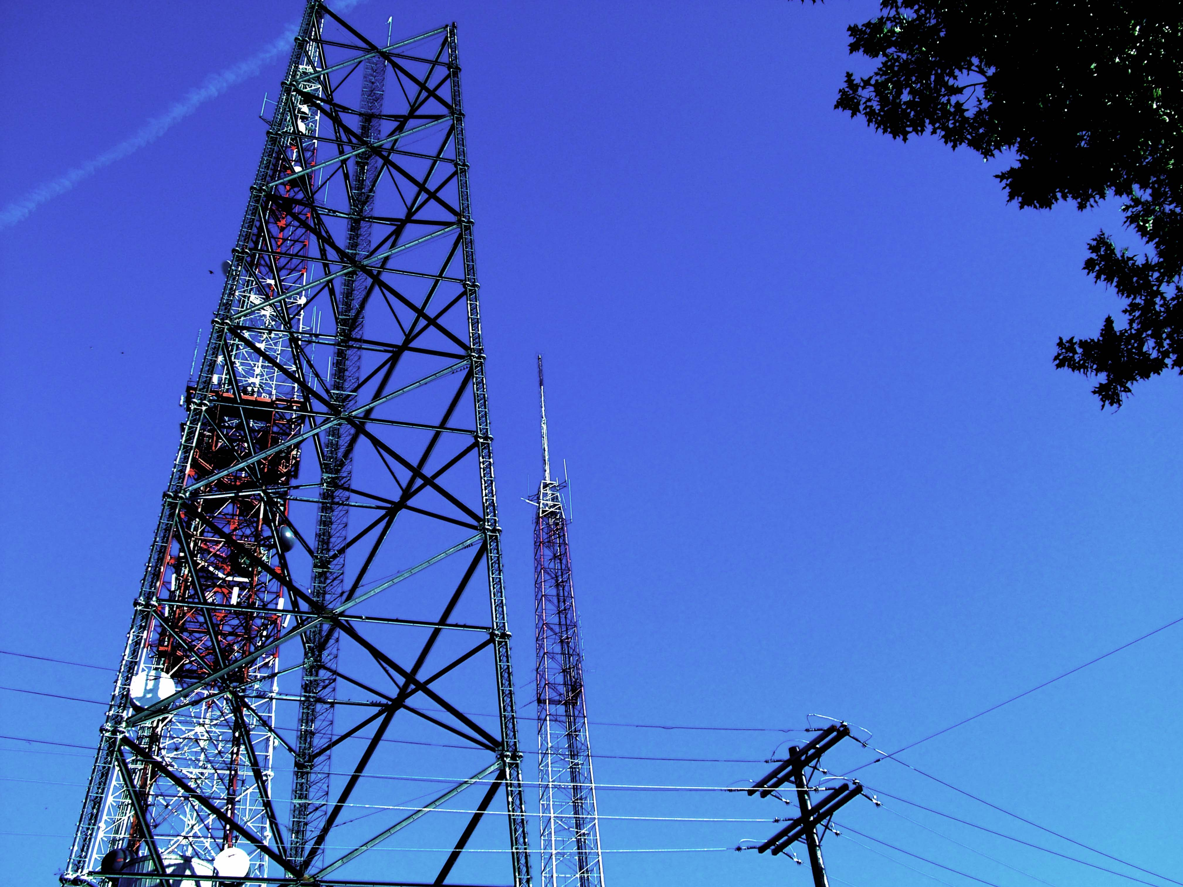 Not In My Back Yard (NIMBY) The pictures was taken in Washington, DC, the US Capitol. There is a neighborhood known as Tenleytown, which is near American University. This tower was not finished as it was considered to be too ugly for such an upscale neighborhood in N.W. They waited until it was half built, and then got some sort of injunction. Now the company that built is is supposed to tear it down.